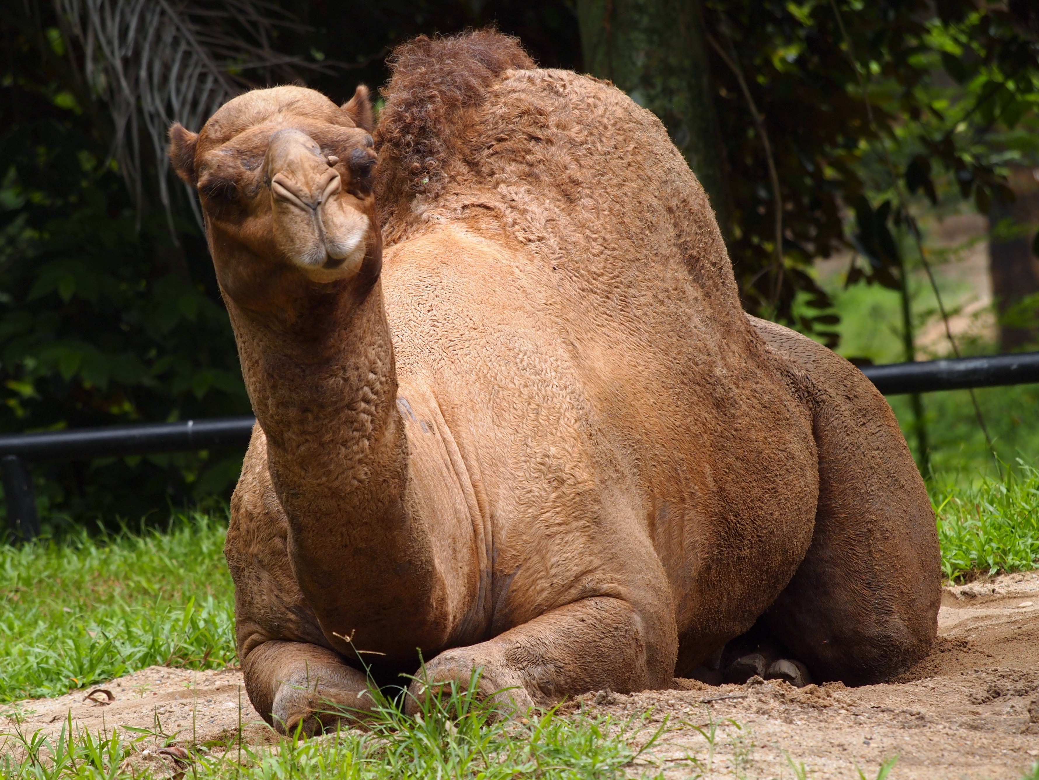 Camelidae / Camel / Unta at Zoo Negara Malaysia